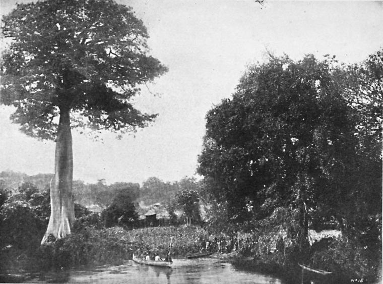 Amaran,_Benué_River